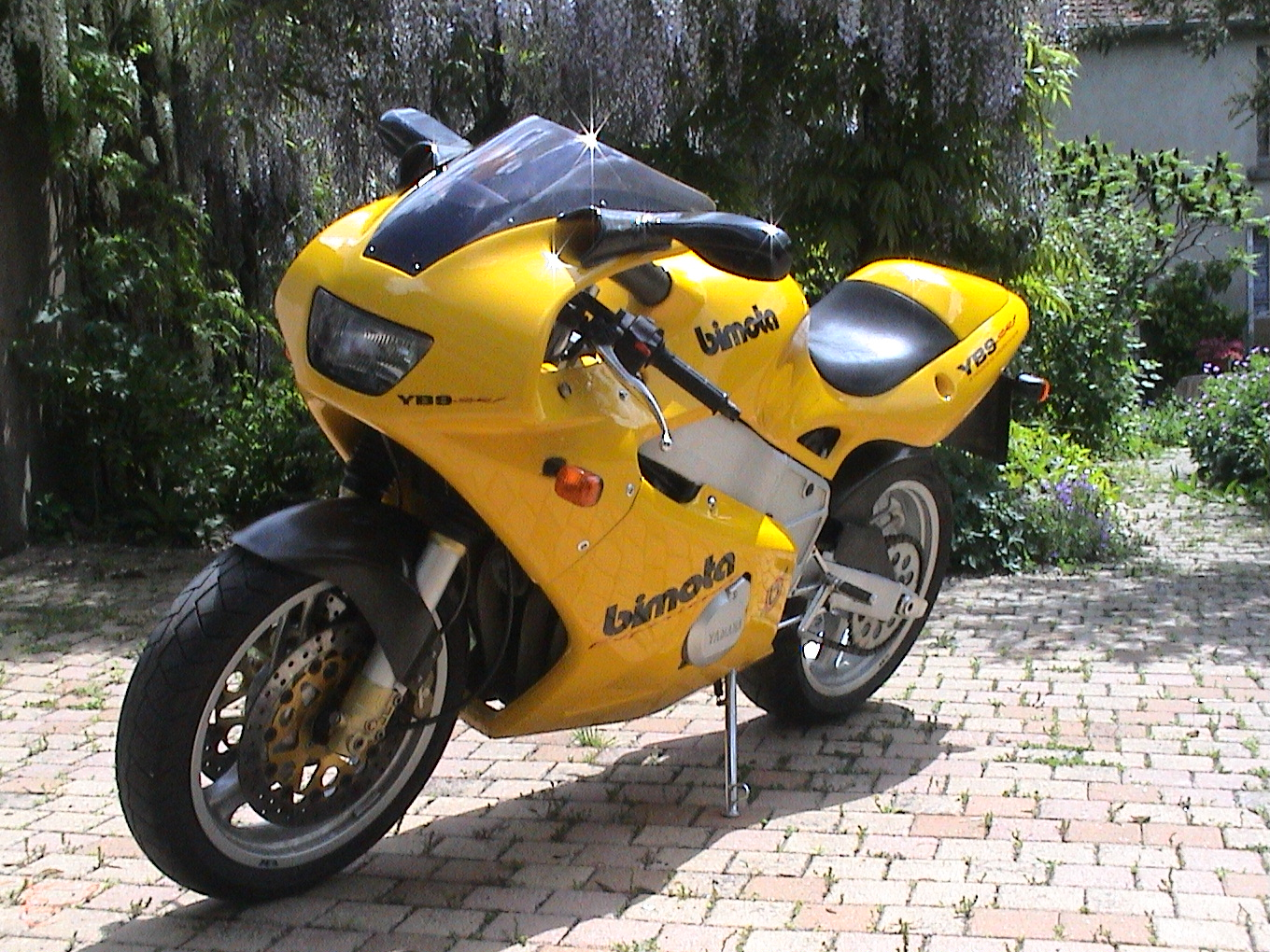 Bimota YB9 SRI